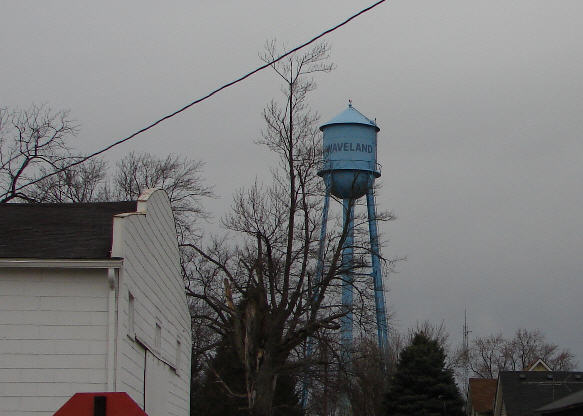 Waveland, Indiana